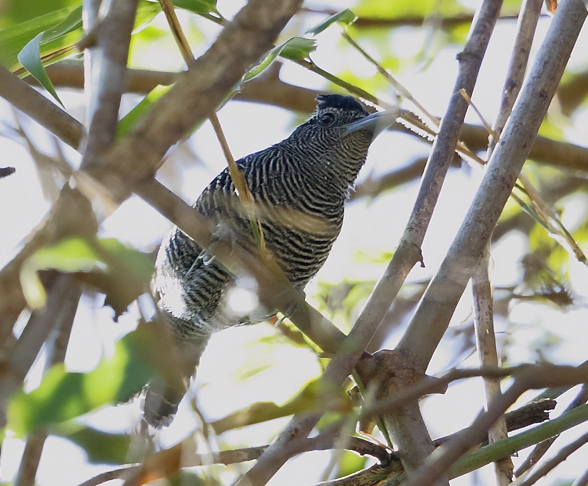 Bamboo antshrike (male) at Rio Branco, Acre, Brazil